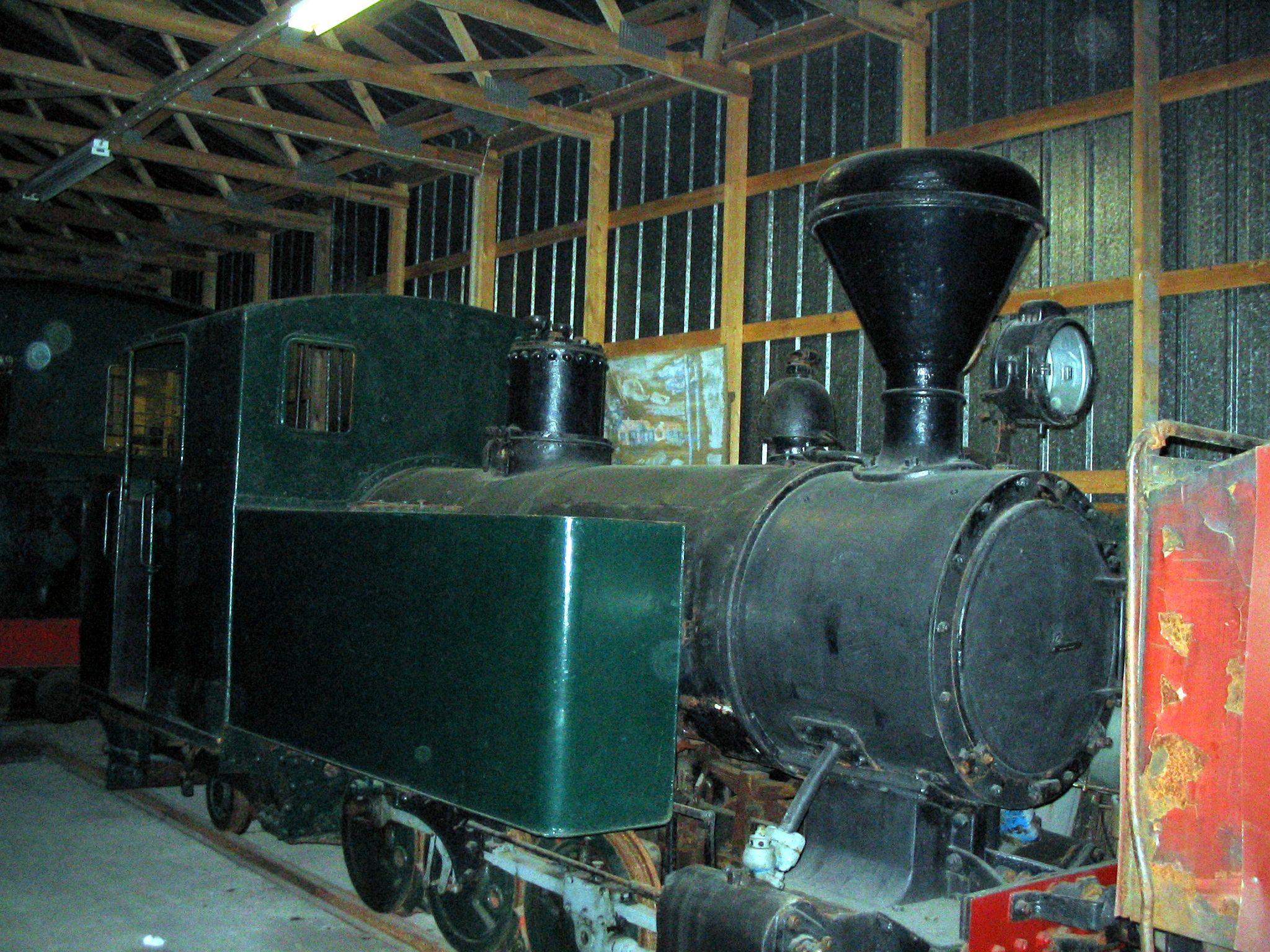 Locomotive Sorsapuisto of Harviala forest railway at narrow gauge railway museum at Minkiö railway station